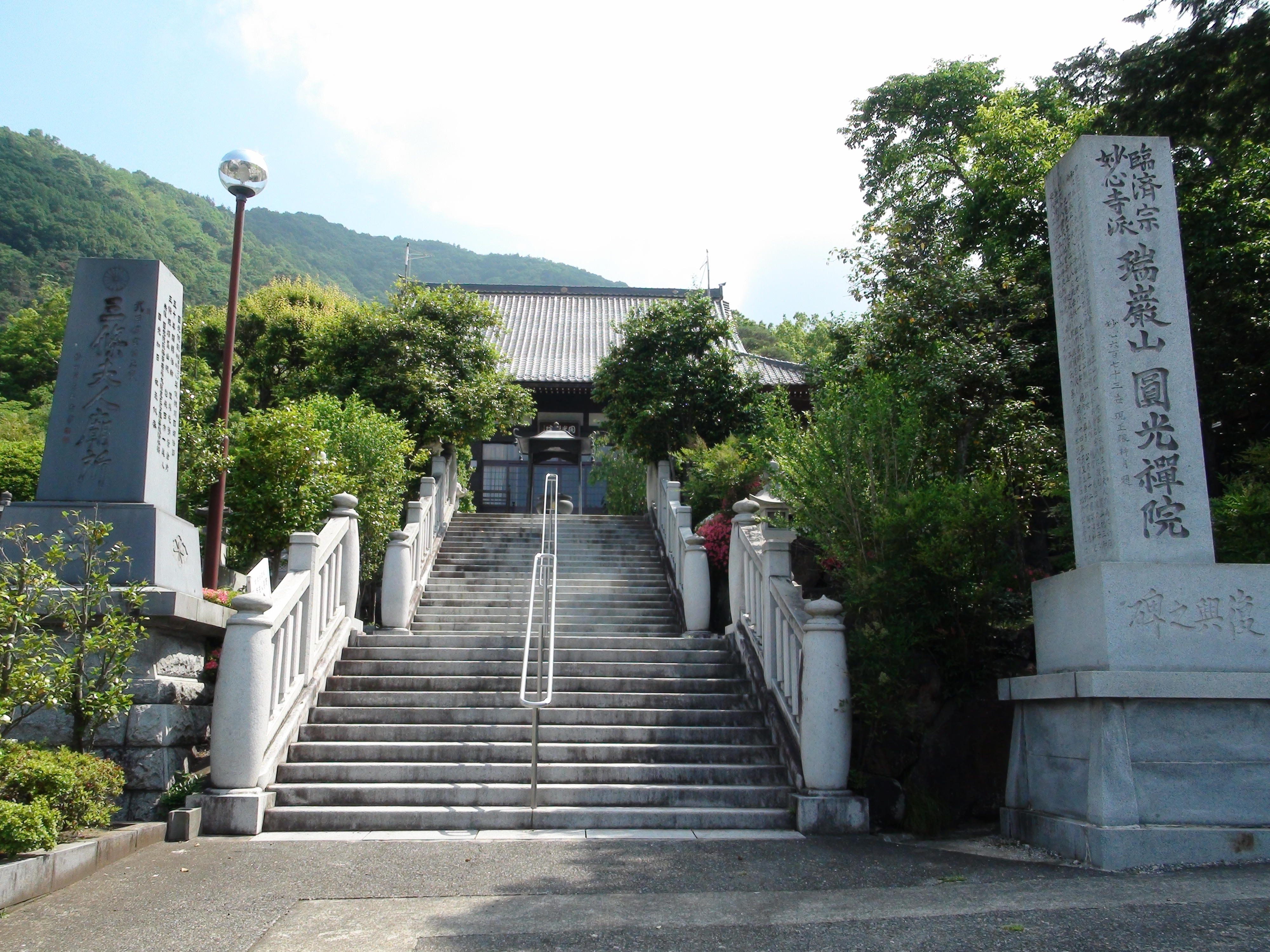 Enkoin-temple Kofu-city Yamanashi Japan